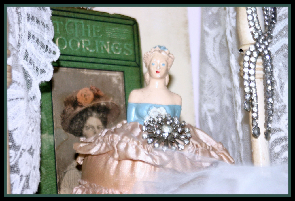 An antique porcelain pin cushion doll.